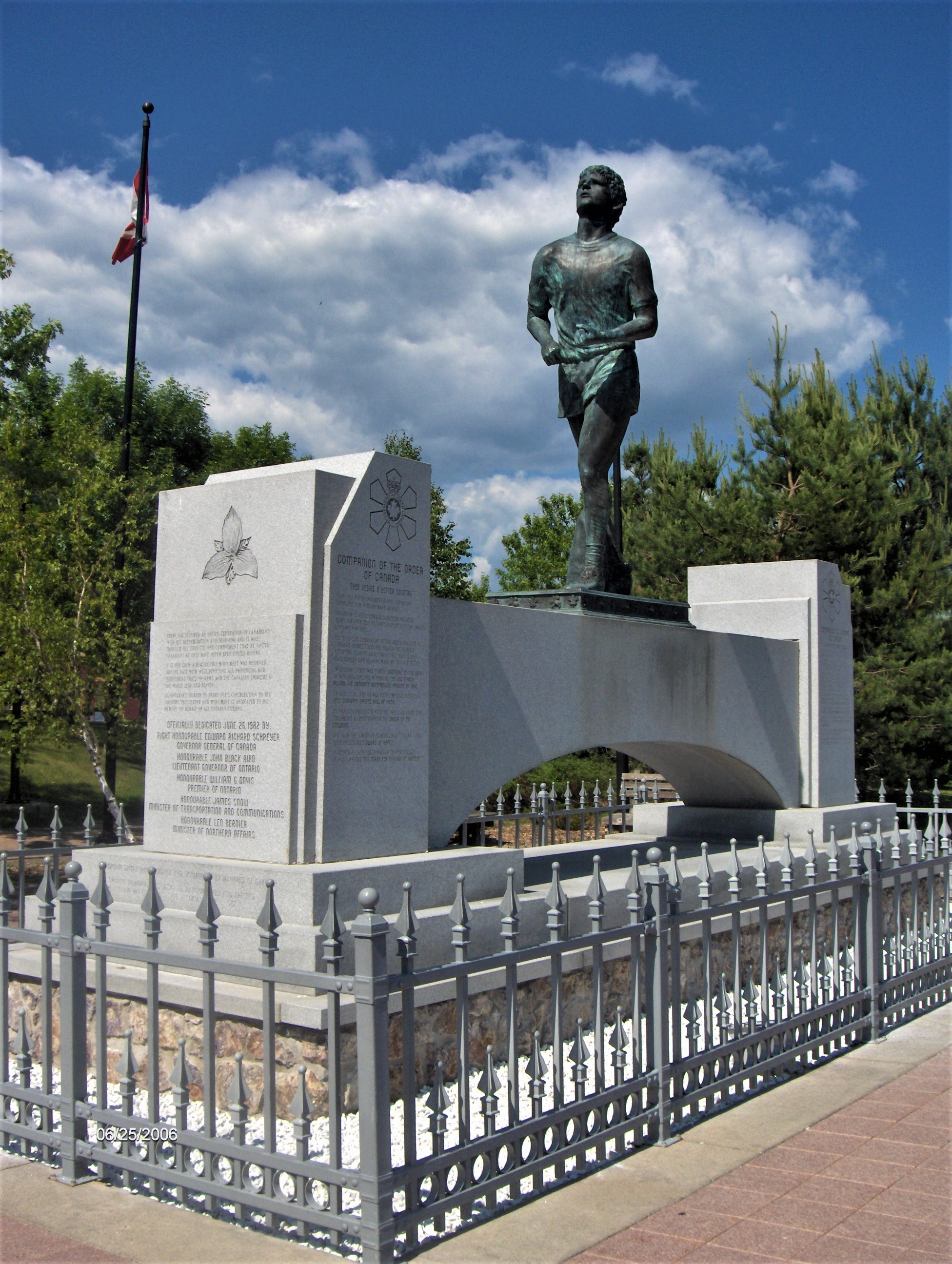 Terry Fox Monument: It marks the spot where Terry Fox stopped his run near Thunder Bay, Ontario and it offers a panoramic view of Thunder Bay and its surroundings